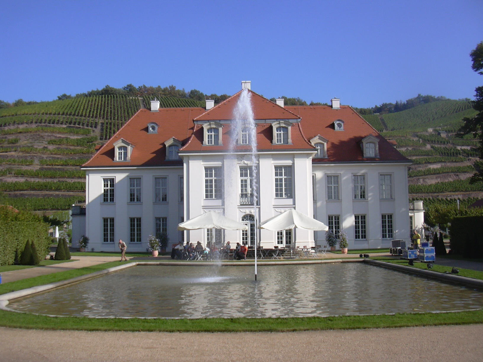 Wackerbarth Castle, Saxon Wine Route, Radebeul, Saxony/Germany